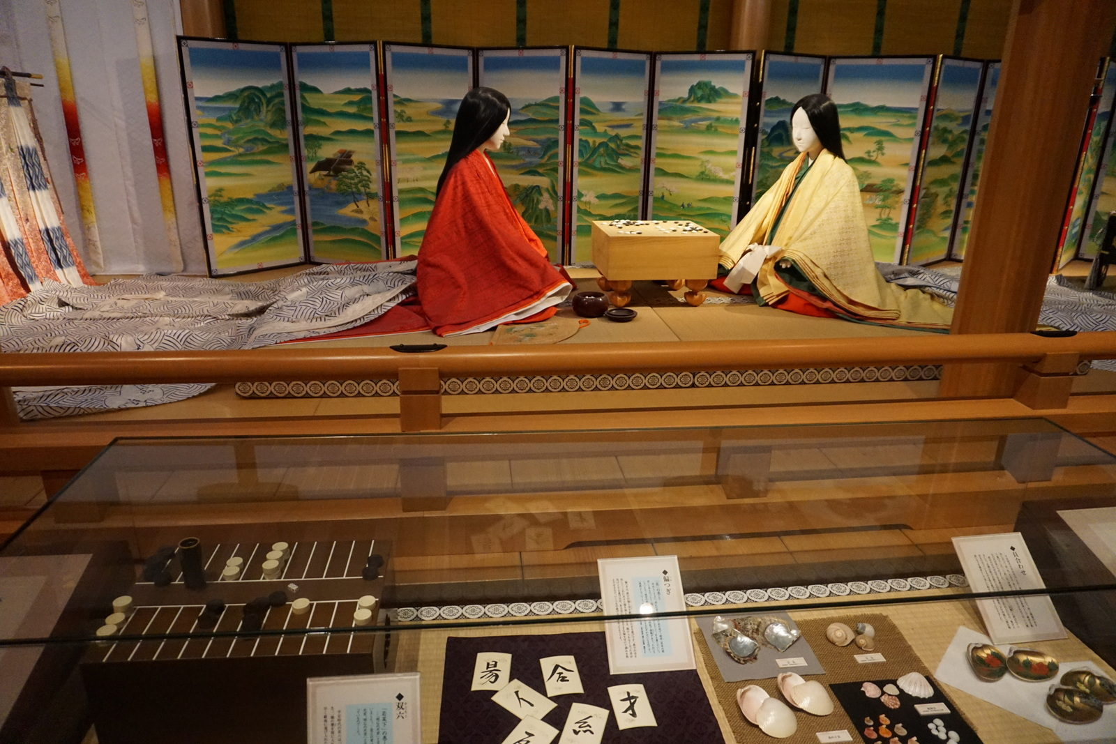 Court ladies in Tale of Genji museum showing a scene from the book